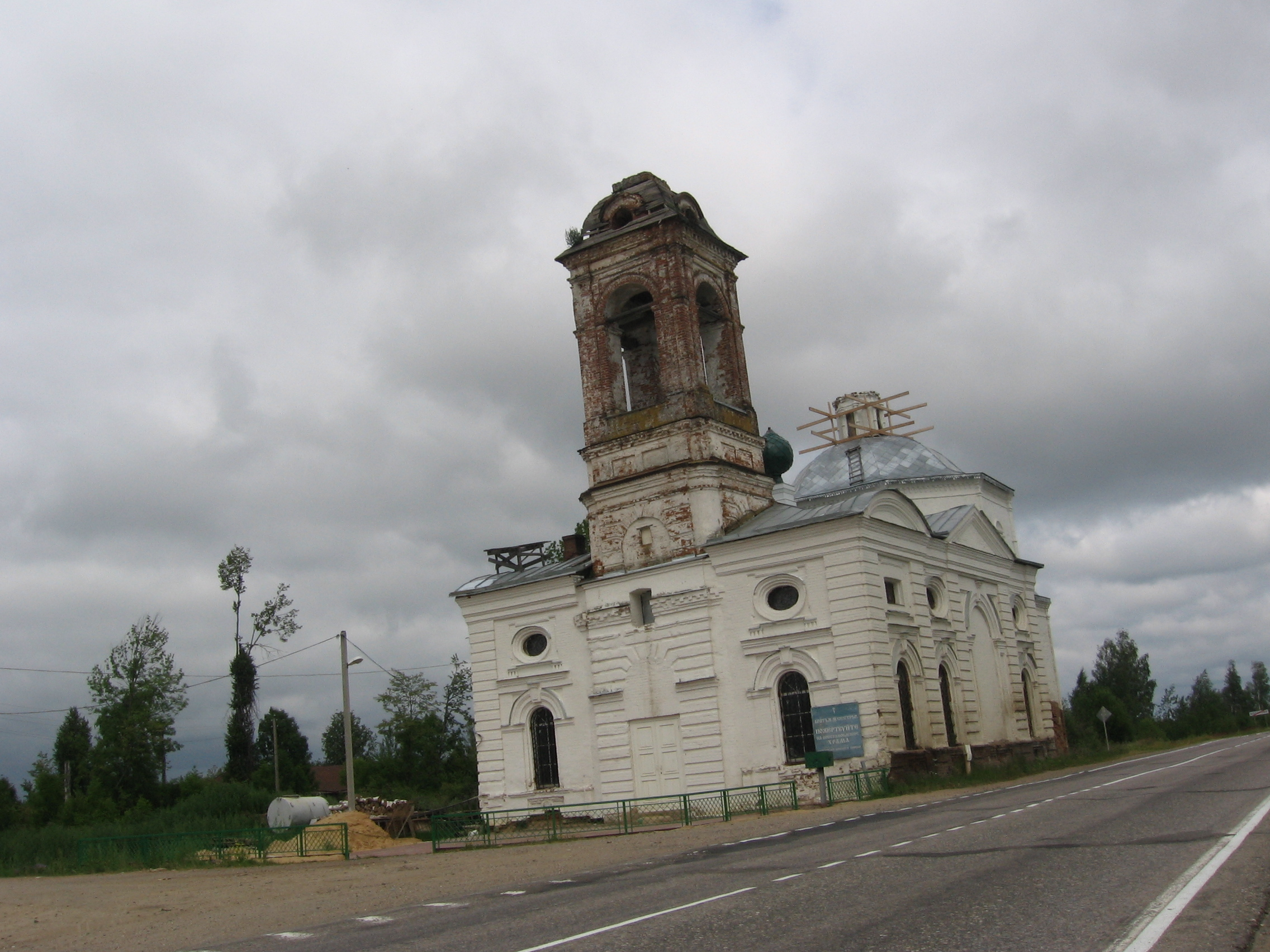 St. Basil and st. Nikolas Church in Bolotovo, Kostroma region, 1713, Russia